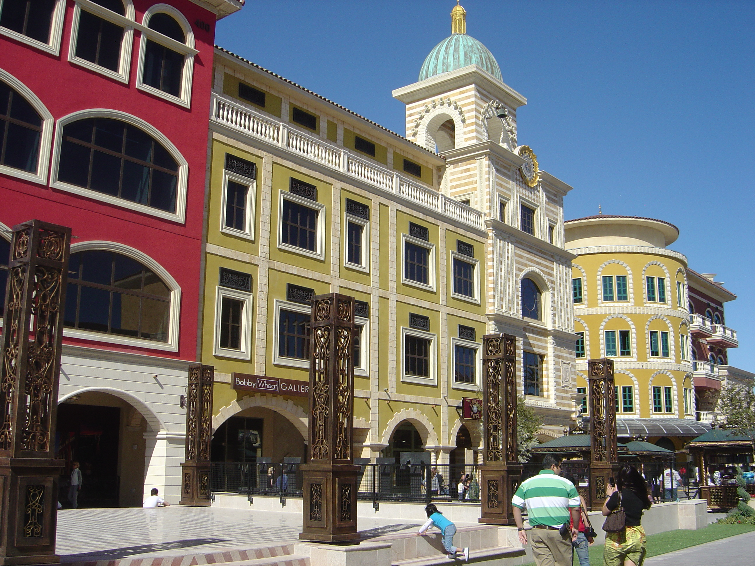 Tivoli Village in Las Vegas.